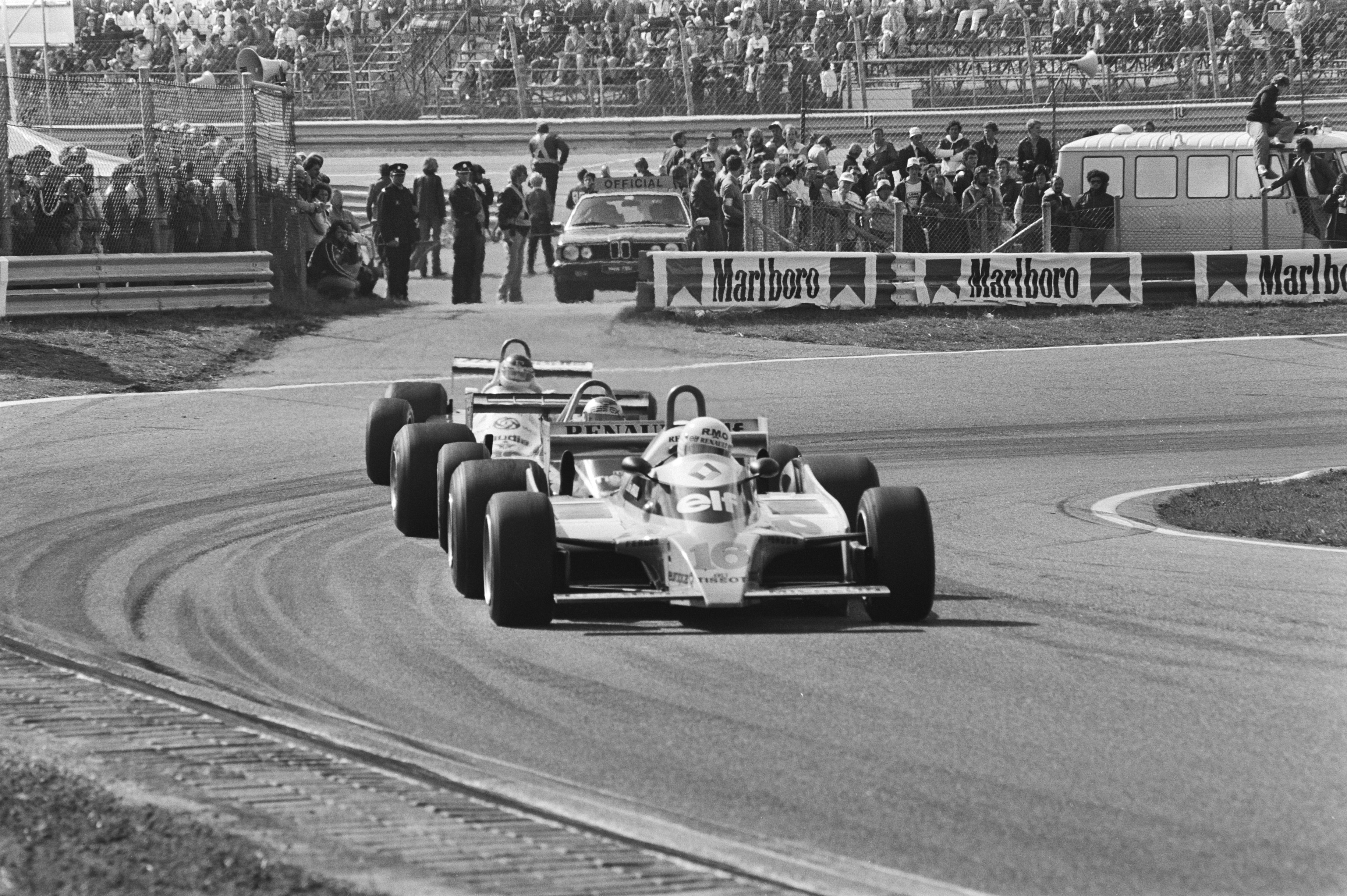 René Arnoux's Renault RE20 leads the battle for fourth, fifth and sixth positions at around half distance in the 1980 Dutch Grand Prix, ahead of the Lotus 81 of Mario Andretti behind and the Williams FW07B of Carlos Reutemann at the rear. Ultimately, Andretti ran out of fuel, but Arnoux was able to work his way to second. Reutemann finished fourth.